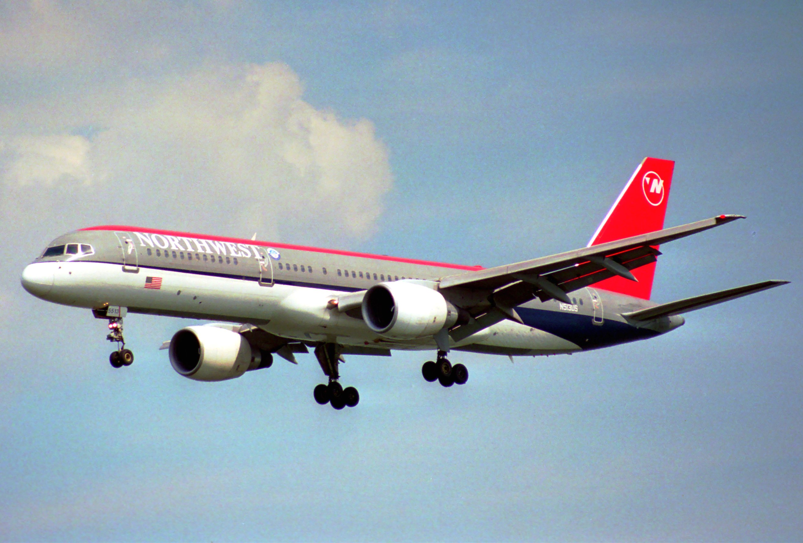 First flight: December 11, 1985...(c/n 23201/83) 11/02/1986 Northwest Airlines N513US stored at Marana 07/11/03 - back in service 11/2006 - stored 09/2009 - scrapped 1/2011